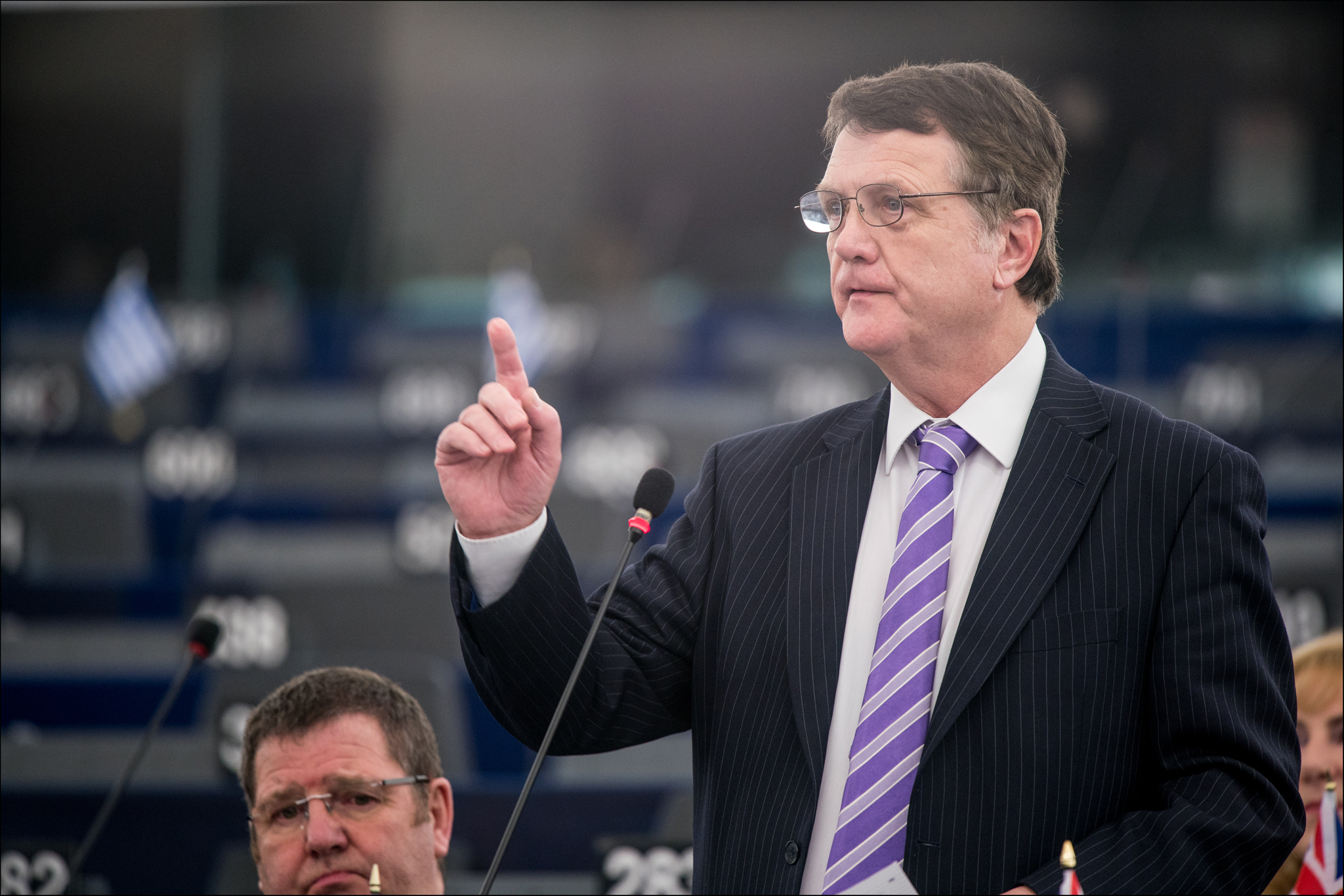 Following the UK parliament's rejection of the Brexit deal in a vote last evening, members of the European Parliament have underlined that the EU will remain united and that citizens’ rights are Europe's priority. Speaking in a debate in Parliament today, Commission Vice-President Frans Timmermans said commitments on the peace process and the border in Ireland or on citizens’ rights cannot be watered down. Parliament's lead member on Brexit @guyverhofstadt called on UK politicians to build a positive majority to break the Brexit deadlock. READ MORE ►► This photo is free to use under Creative Commons license CC-BY-4.0 and must be credited: "CC-BY-4.0: © European Union 20XY – Source: EP". No model release form if applicable. For bigger HR files please contact: webcom-flickr(AT)